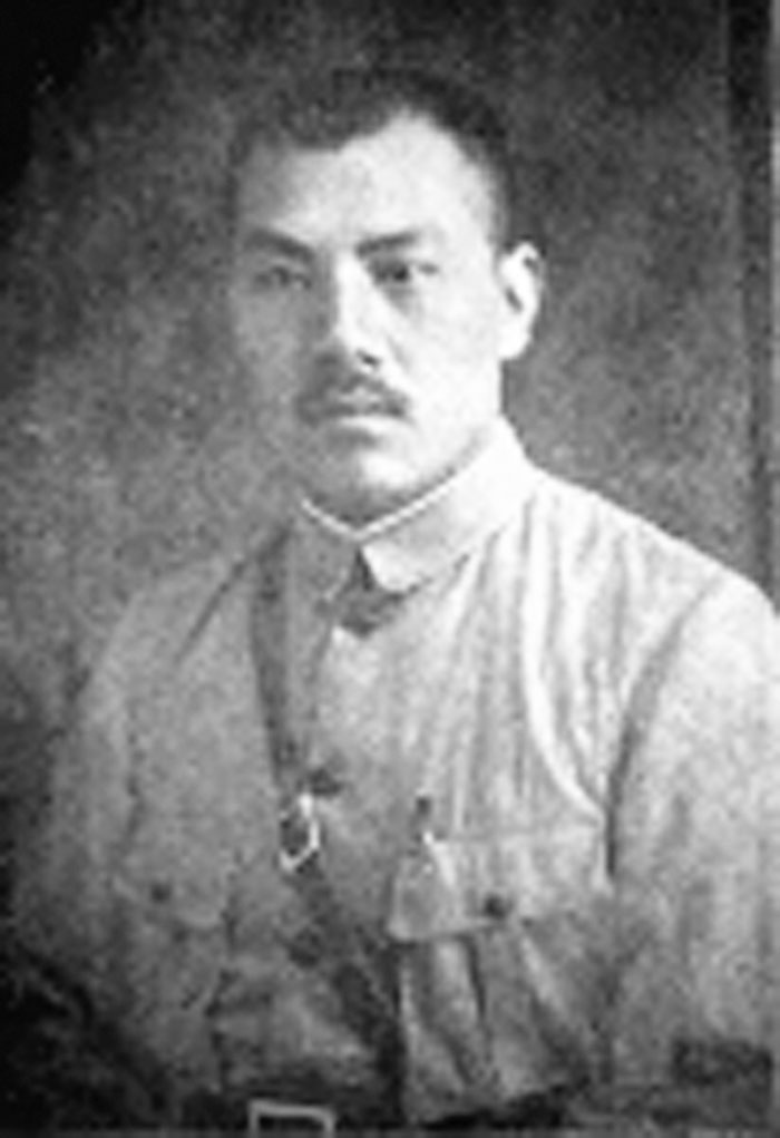 He Qigong(1899－1955)